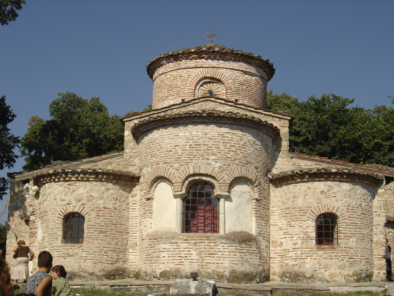 Church of Kimissi tis Theotokou, in Kondariotissa. The oldest meta-vyzantine monument in Pieria.